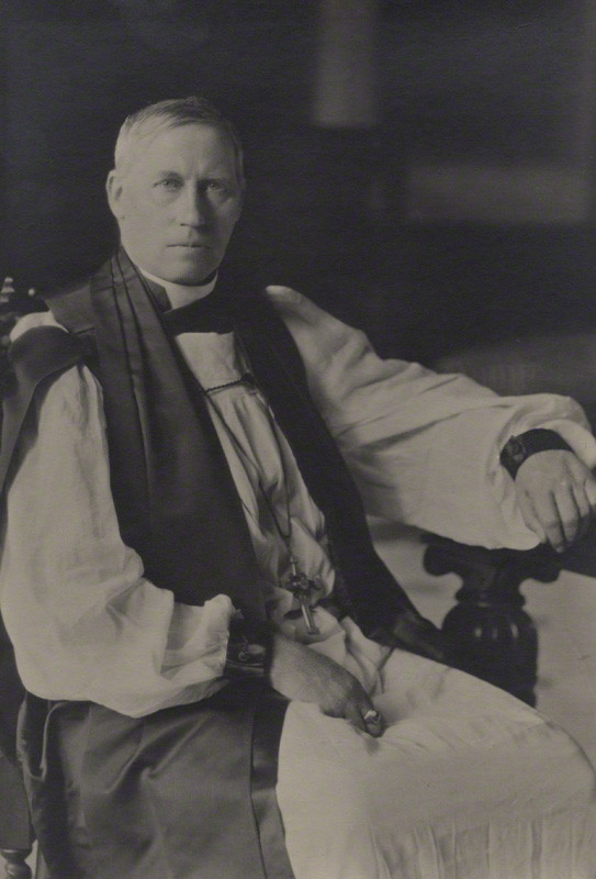 Arthur Cayley Headlam (1862-1947)